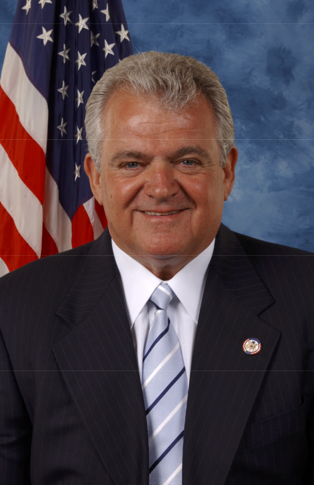 Bob Brady official photo